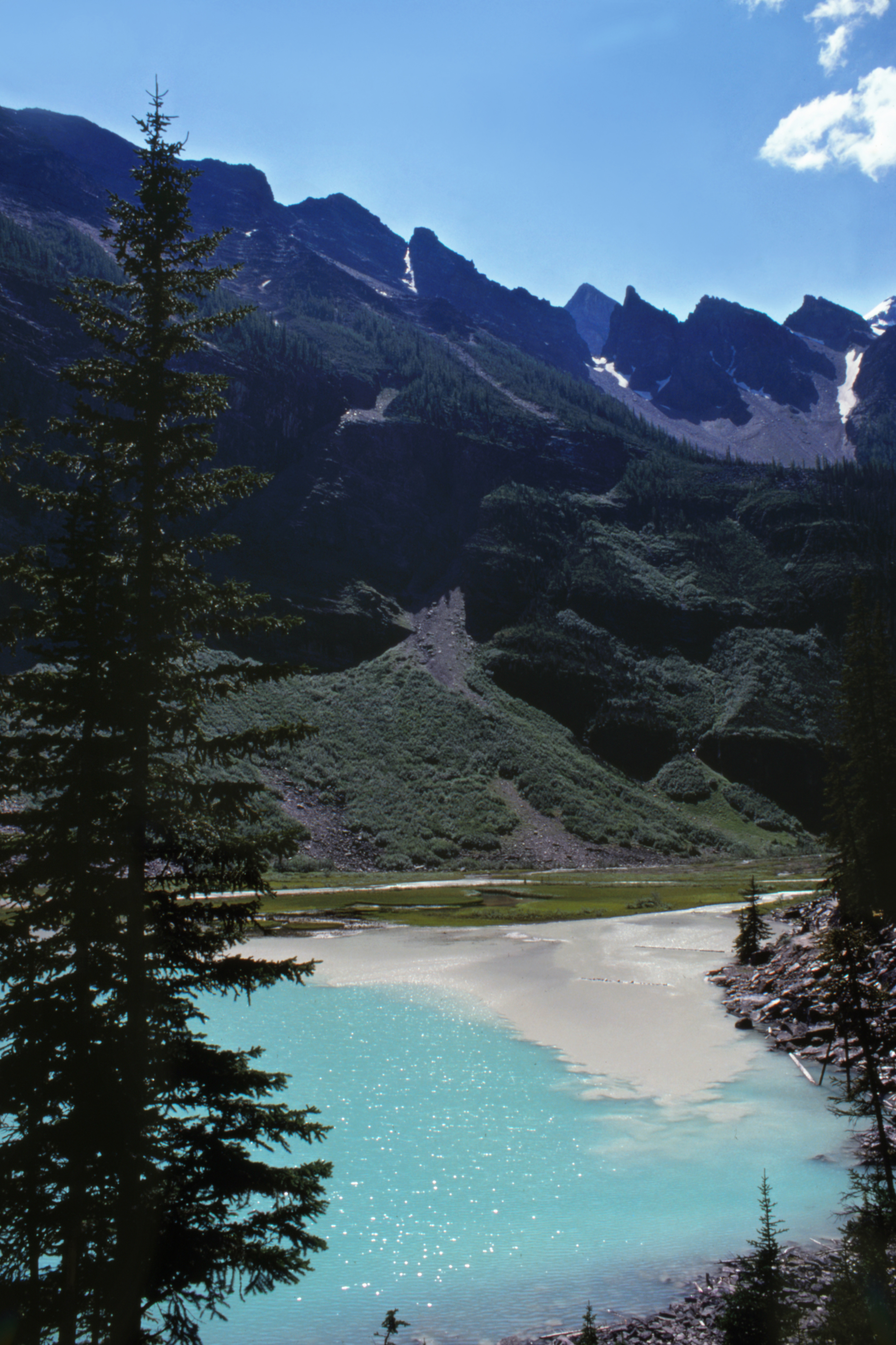 Powdered rock (rock flour) from glacial melt enters headwaters at Lake Louise, Alberta, Canada. (Taken in 1981 and digitized from Kodachrome original)